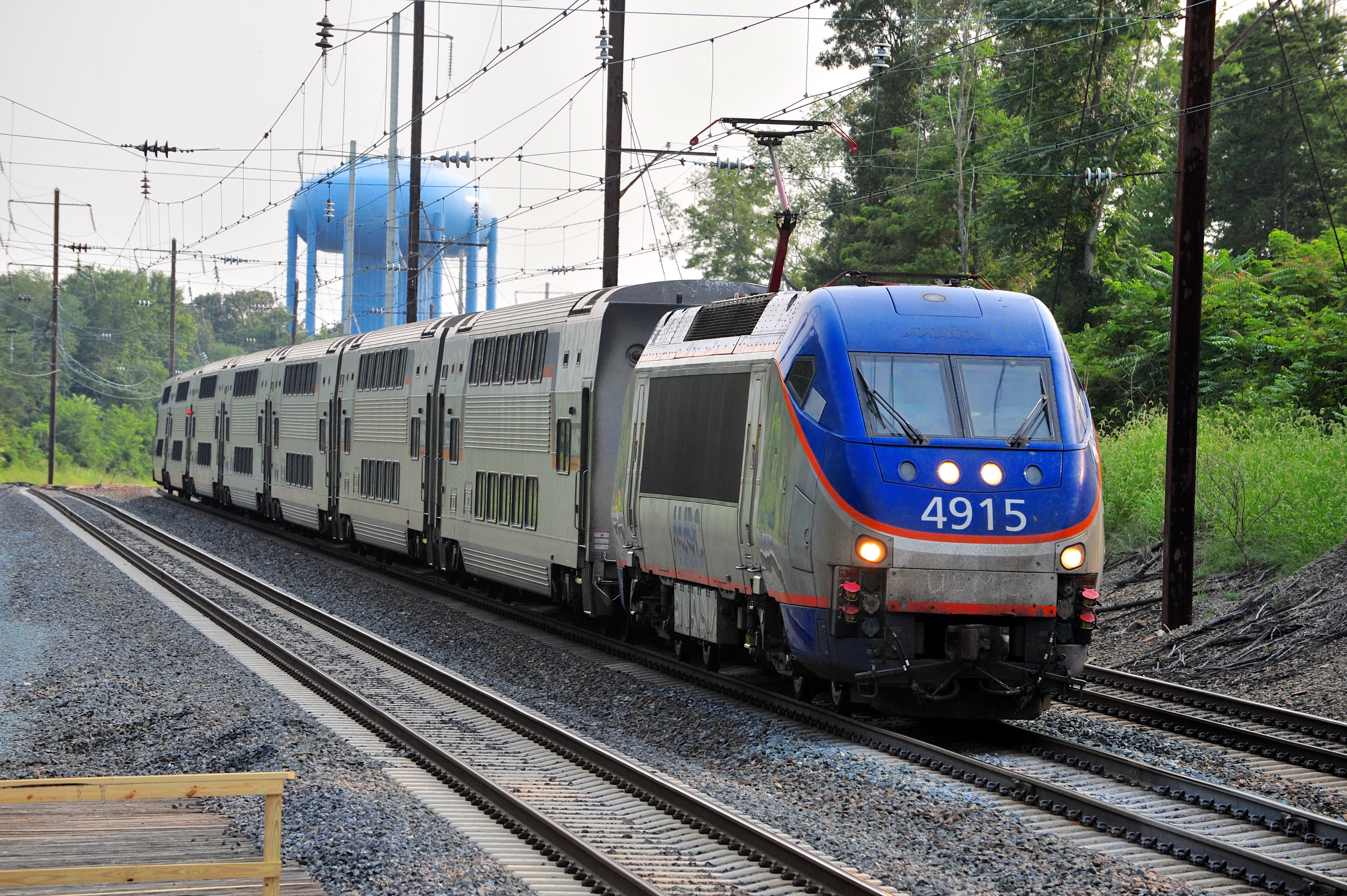 First up, MARC 438, the super-express to BWI screams up track 2 approaching Odenton.